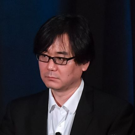 Hirokazu Yasuhara at the 2018 Game Developers Conference